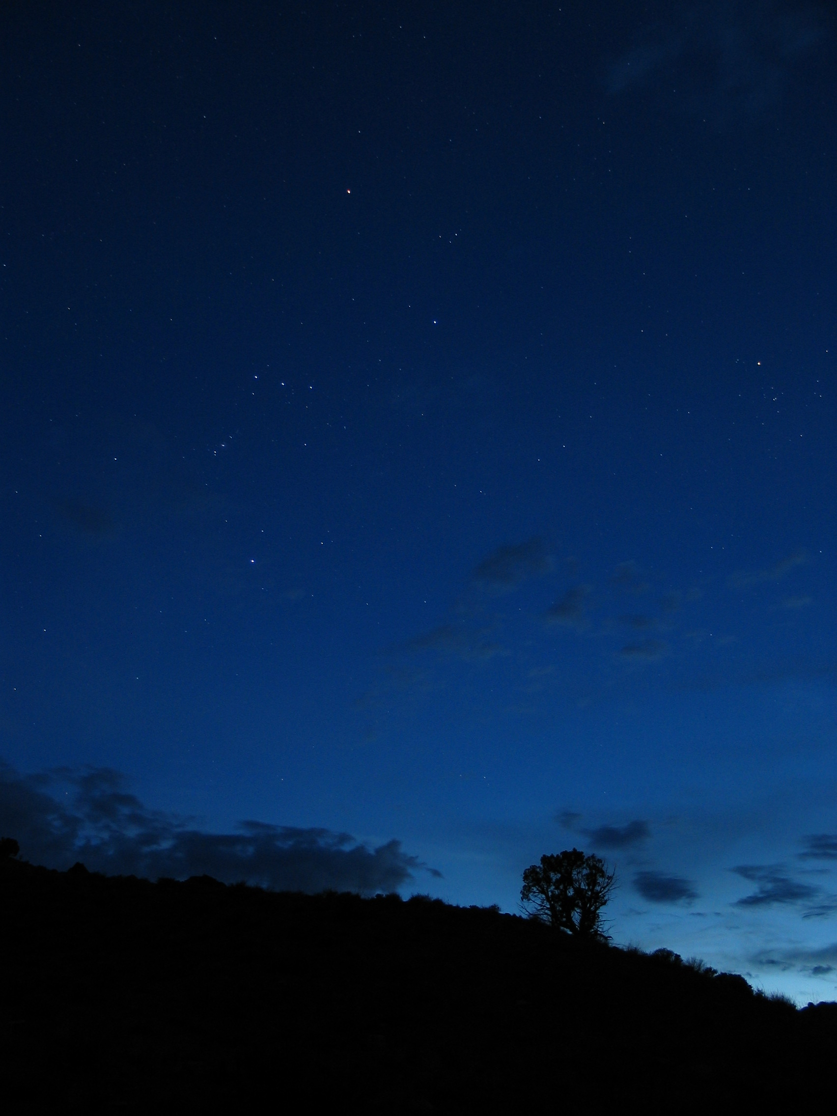 The star constellation orion in the sky above arches NP, Utah, USA.